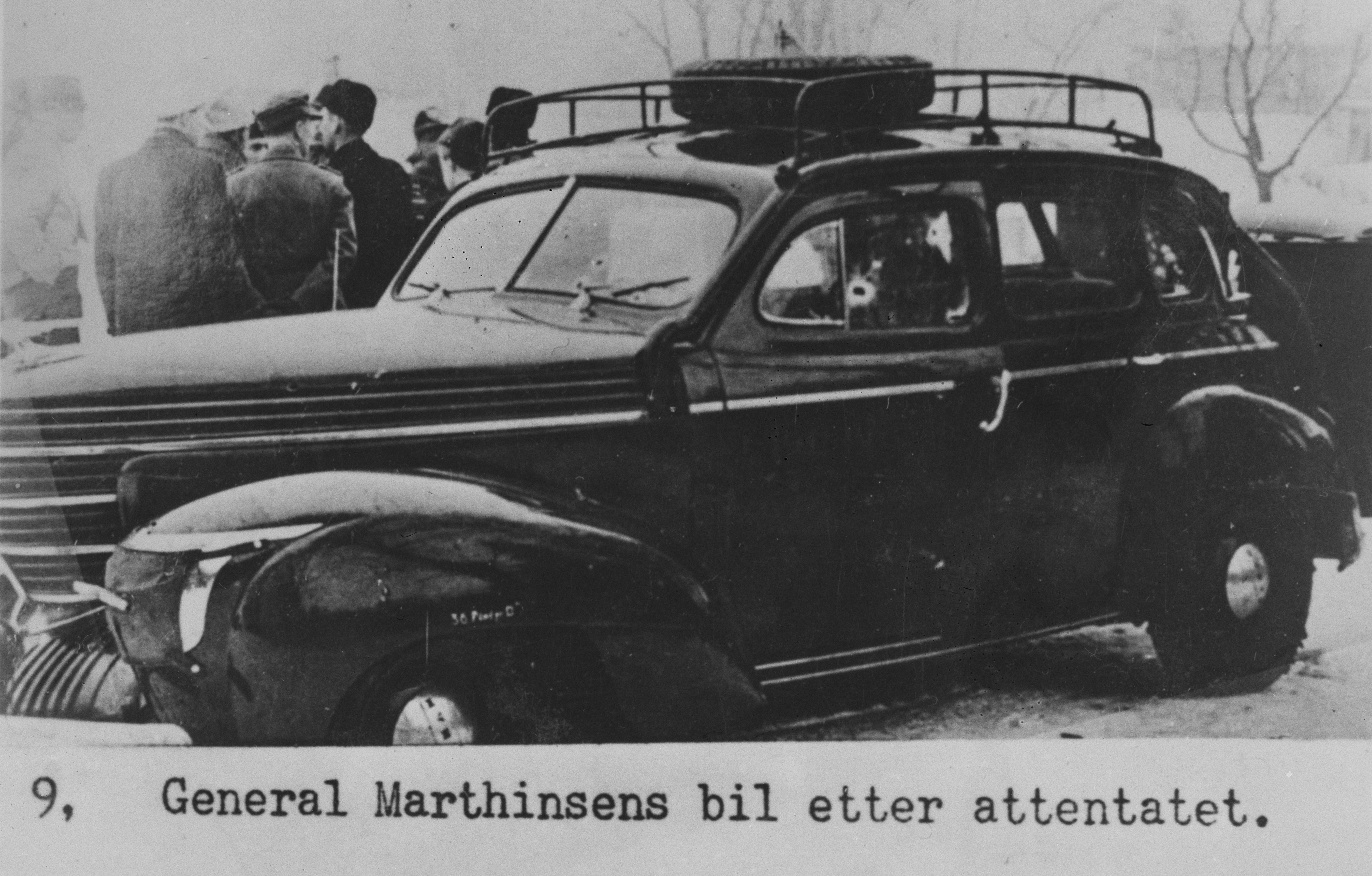 "The end of leading Germans and members of the Nasjonal Samling (NS, Norwegian fascist party)." A series of photos of former Nazi leaders and collaborators in German occupied Norway during World War II showing them at the end of the war or after the liberation in 1945: 9. The car of Karl Marthinsen, the Norwegian commander of the Nazi controlled Statspolitiet (National Police), assassinated in his car by a Norwegian resistance group on February 8th, 1945.